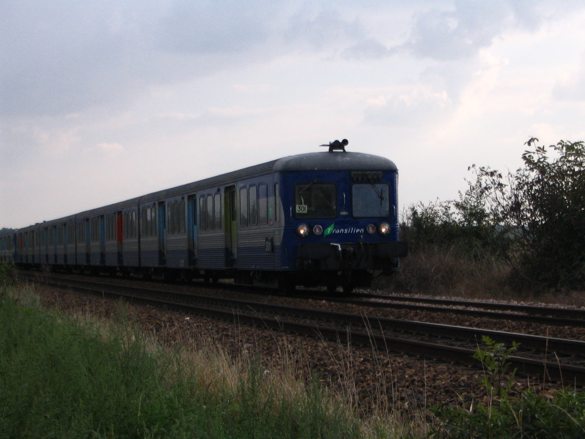 A suburban train on the Paris-Bâle railway, in Presles-en-Brie, Seine-et-Marne, France.